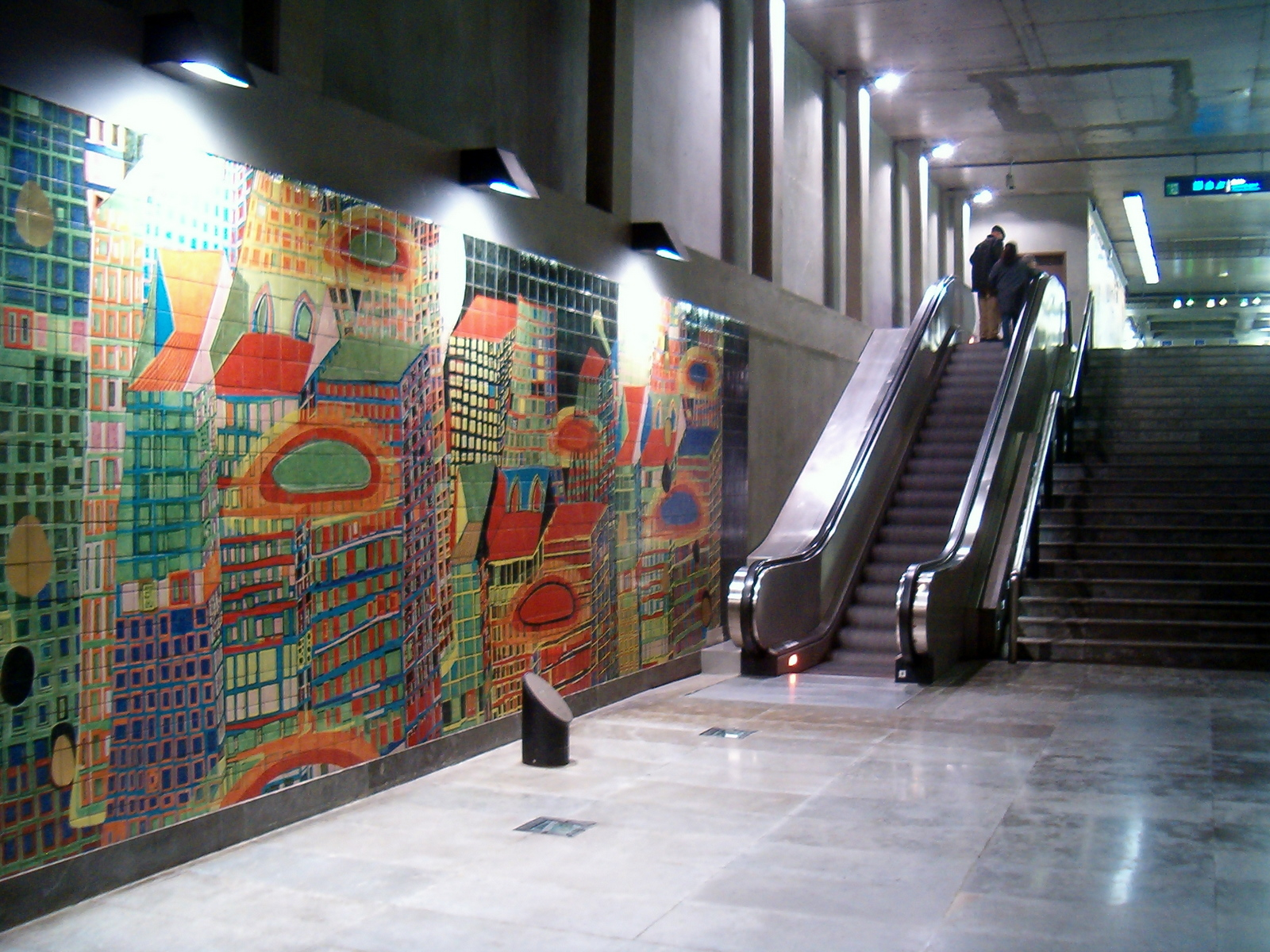 Metro station Oriente